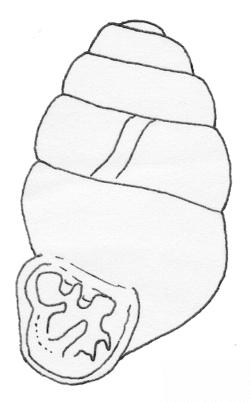 Vertigo pusilla - Pulmonate landsnail shell; Holocene deposits outcrop Beveren-Waes (Kallo), Belgium